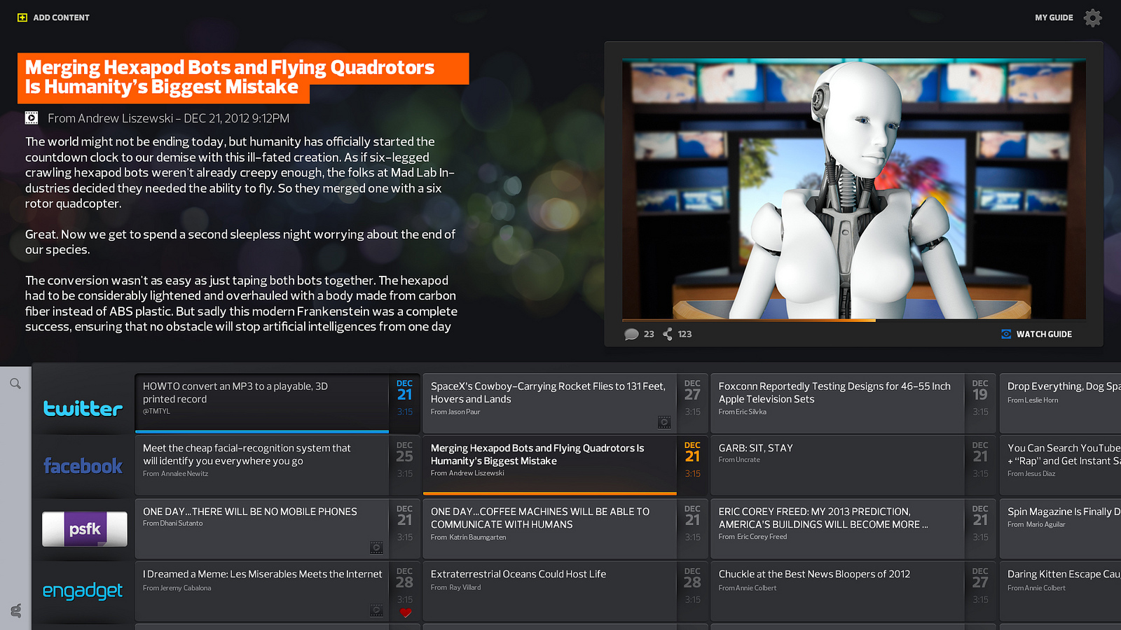 Screenshot of the Guide app's programming page